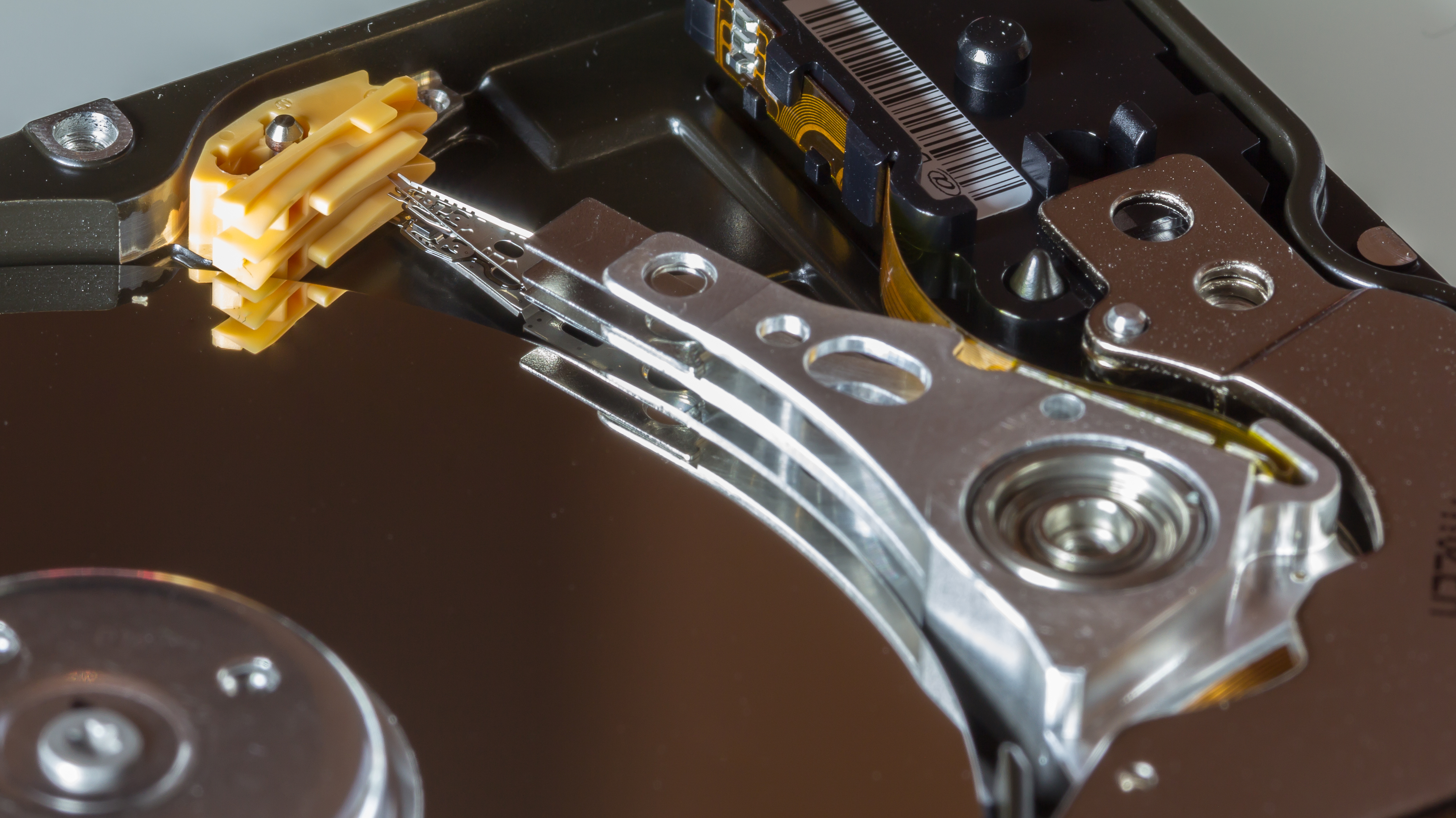 WD Scorpio Blue - 160 GB - WD1600BEVT-22ZCT0 - opened. Platter and head mechanics. The head is parked in the landing zone.